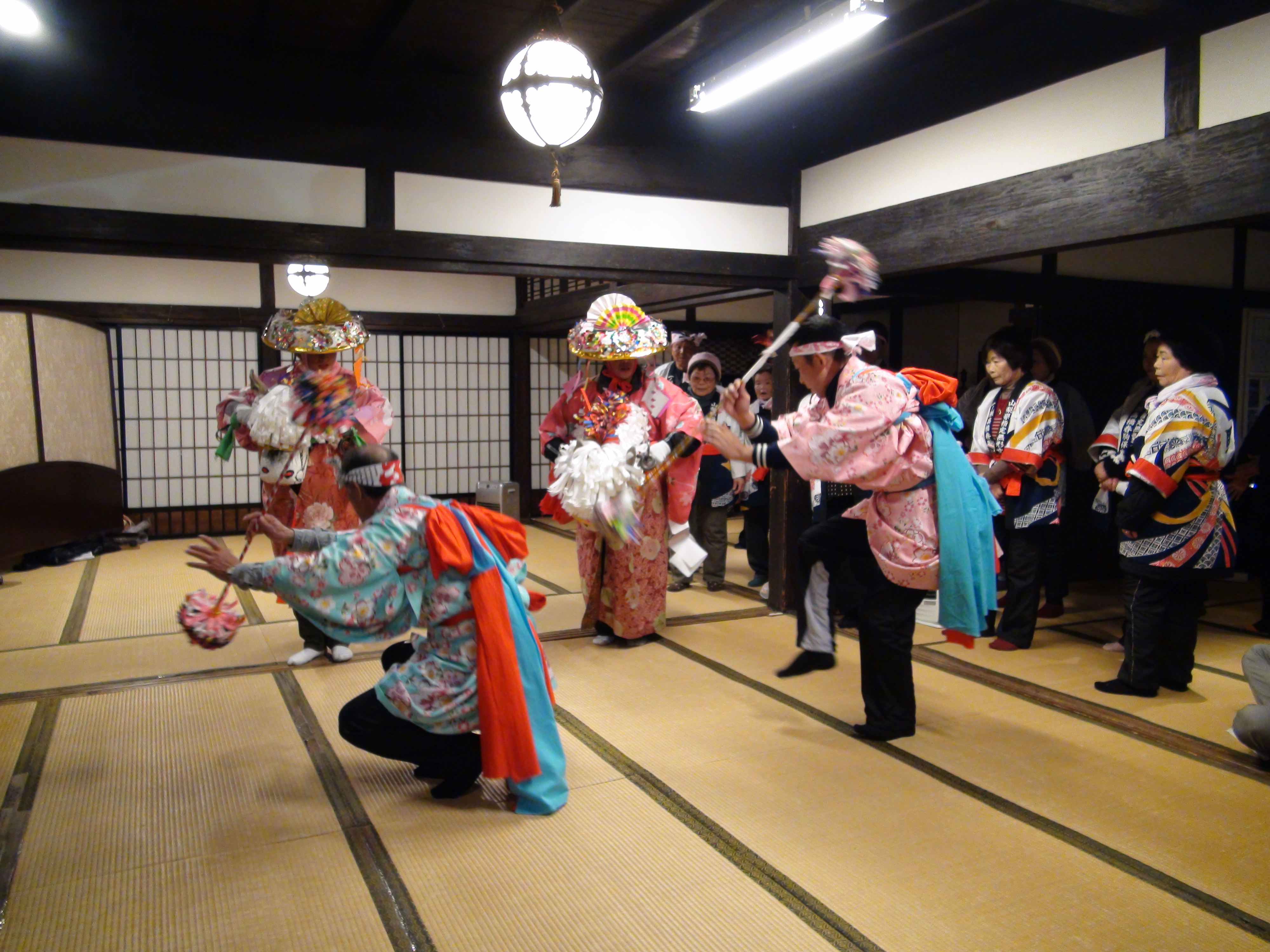 Ichinose Takahashi no Harukoma(Traditional folk festival of the Lunar New Year, Ichinose takahashi Harukoma cockhorse) Indoors